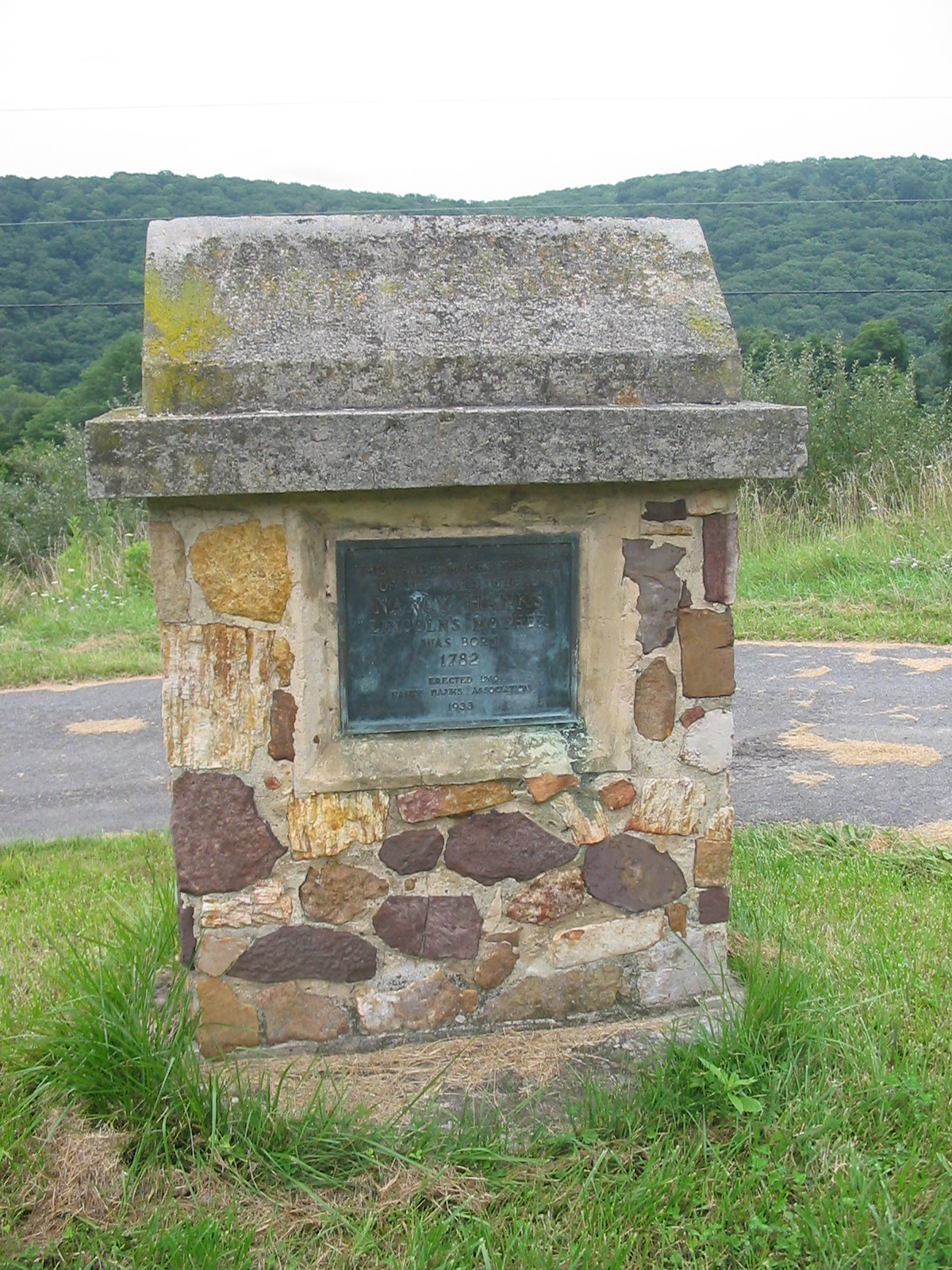 Image taken by me for Wikipedia